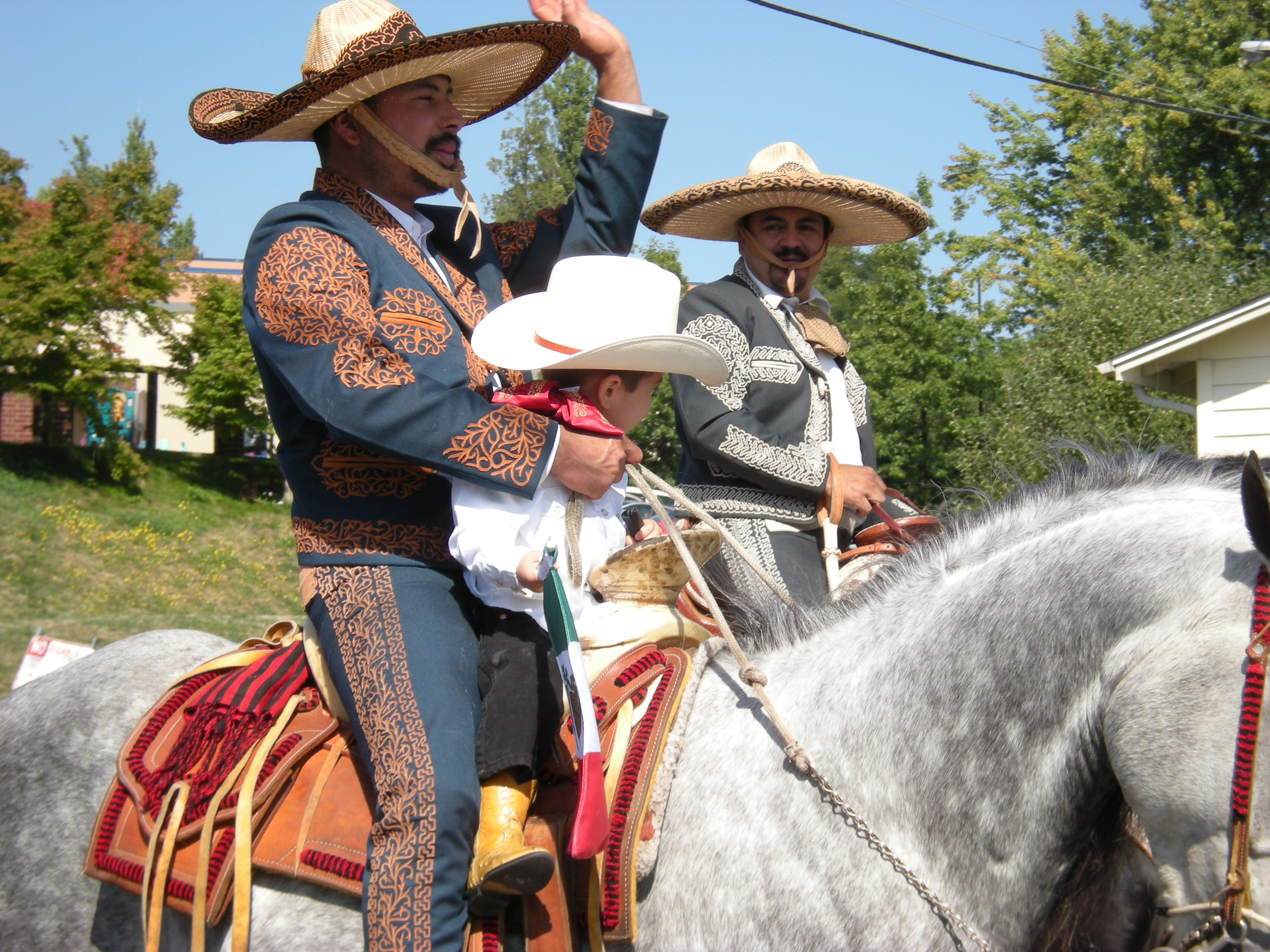 Two (and a half?) of about 80 riders (many, like these, in traditional Mexican dress) on horses, 2008 Fiestas Patrias parade, South Park, Seattle, Washington.